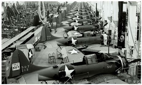 SBD Dauntless